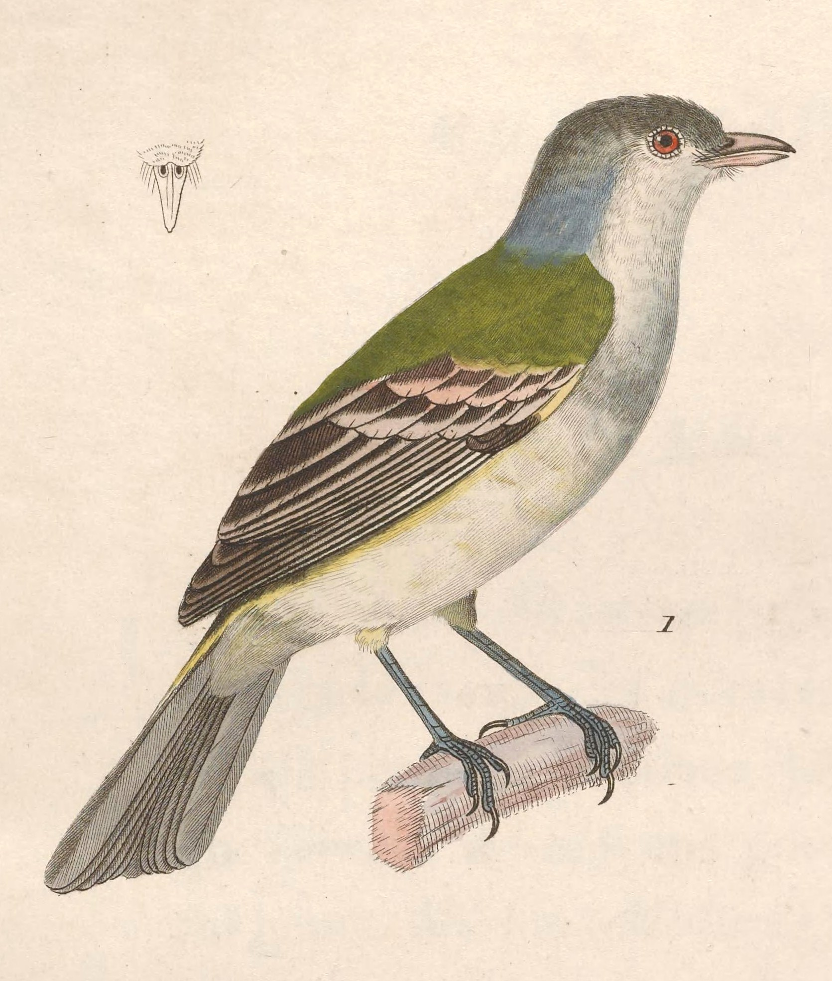 « Muscicapa obsoleta » = Camptostoma obsoletum (Southern Beardless Tyrannulet) - male